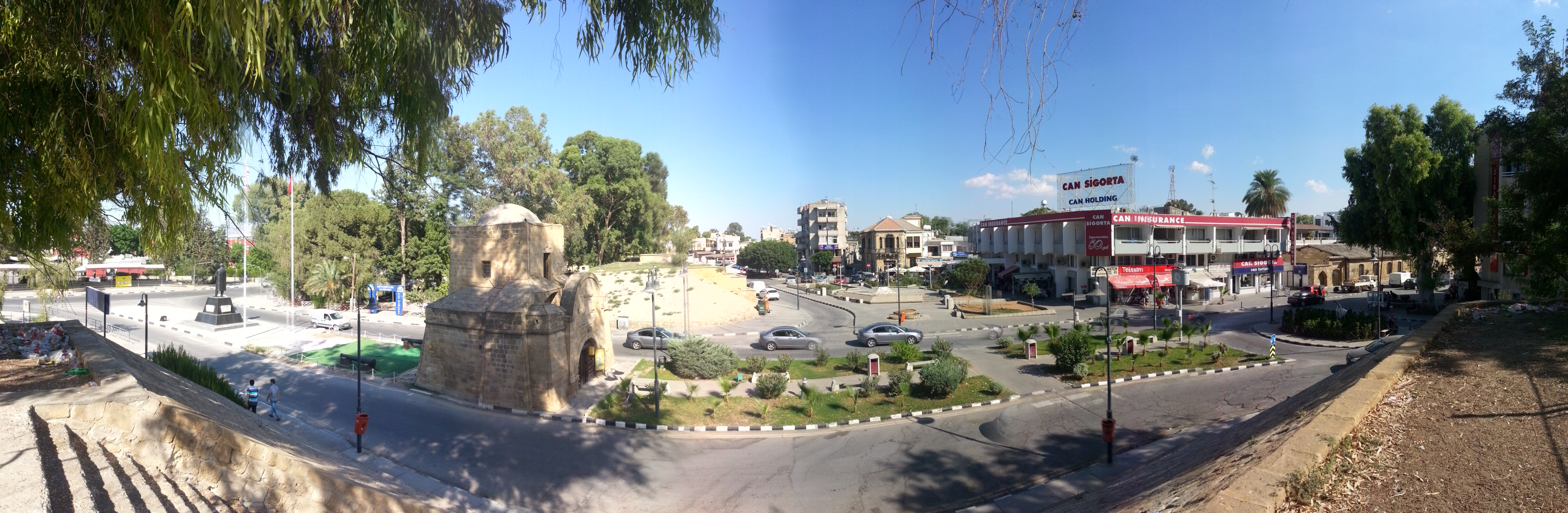 A panorama of the İnönü Square and Kyrenia Gate in North NicosiaTürkçe: Lefkoşa'da İnönü Meydanı ve Girne Kapısı'nın bir panoraması